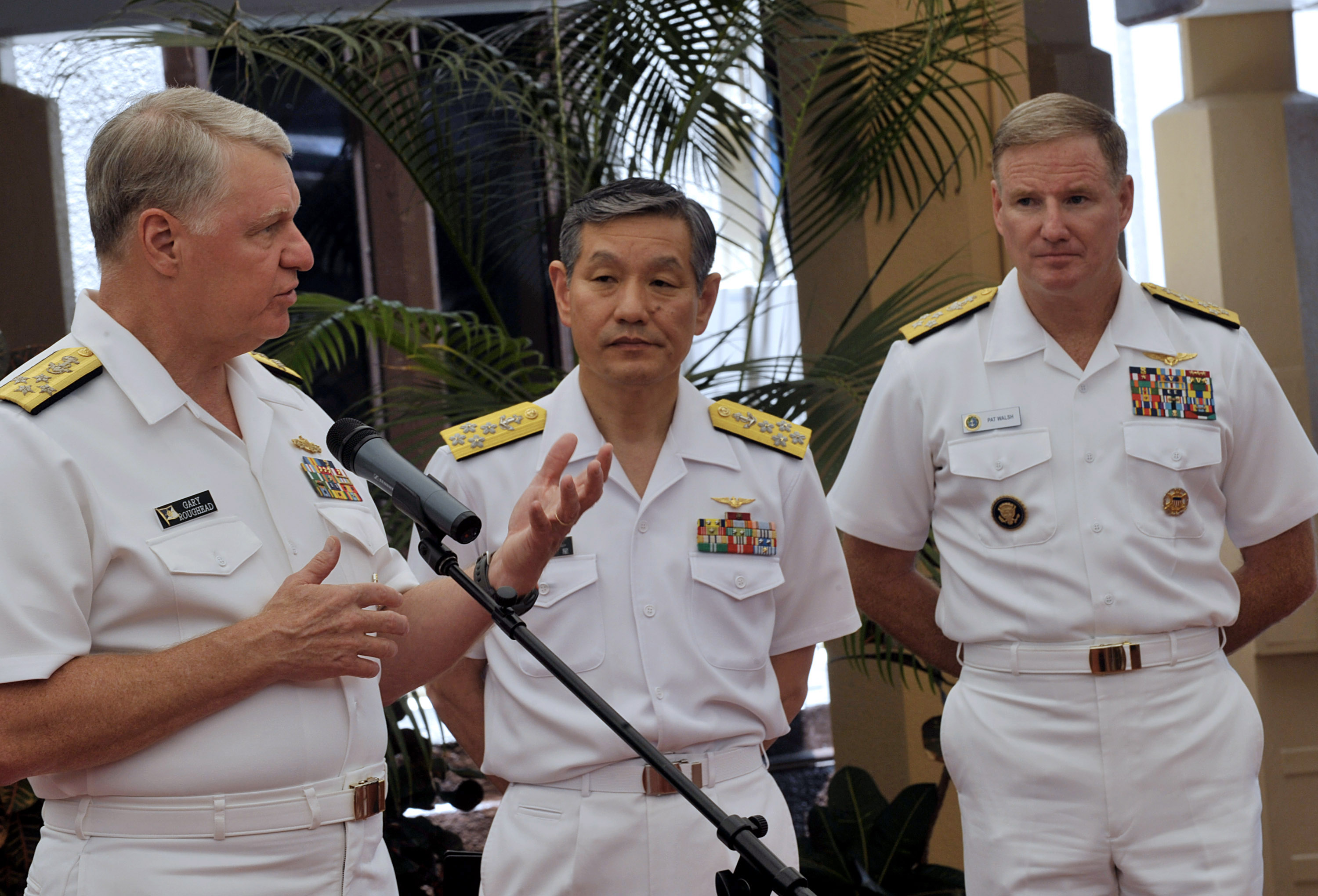 PEARL HARBOR (June 9, 2010) Chief of Naval Operations (CNO) Adm. Gary Roughead, left, Adm. Keiji Akahoshi, Chief of Staff of the Japan Maritime Self-Defense Force, and Adm. Patrick M. Walsh, commander of U.S. Pacific Fleet, answer questions from media at Joint Base Pearl Harbor-Hickam. Roughead, Akahoshi, and Walsh are at the base to participate in the 2010 Japan-U.S. Junior Officers Symposium. (U.S. Navy photo by Mass Communication Specialist 1st Class Tiffini Jones Vanderwyst/Released)